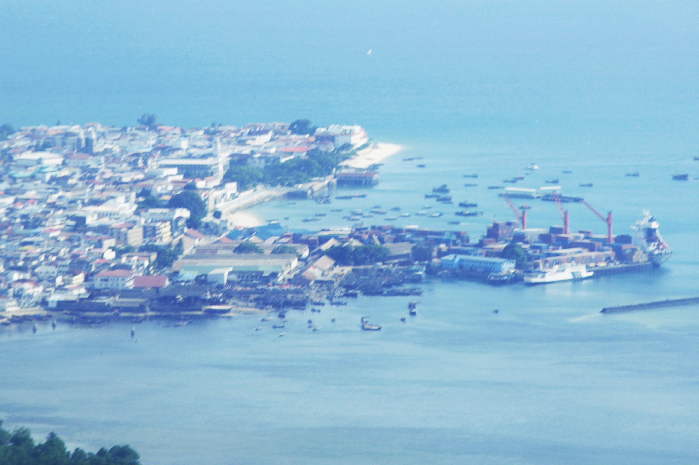 A bird's view of the stone city in Zanzibar, This photo has been taken by Prof. Chen Hualin.